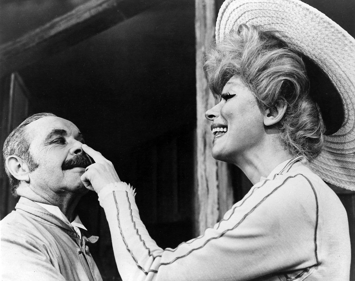 Publicity photo of Carol Channing and David Burns in Broadway play, Hello Dolly